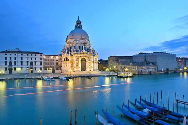 View to Santa Maria della Salute over the Grand Canal in Venice, Italy.